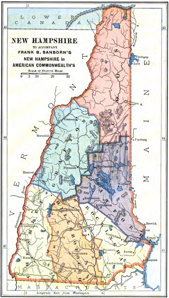 Seal of the State of New Hampshire.